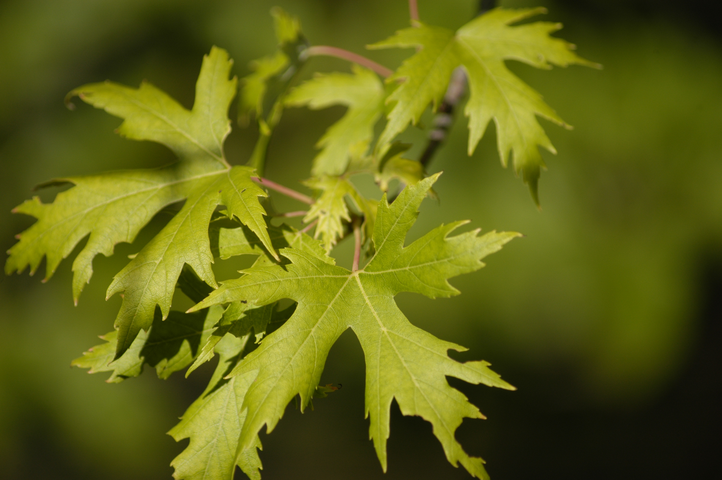 Silver Maple (Acer saccharinum), leaves